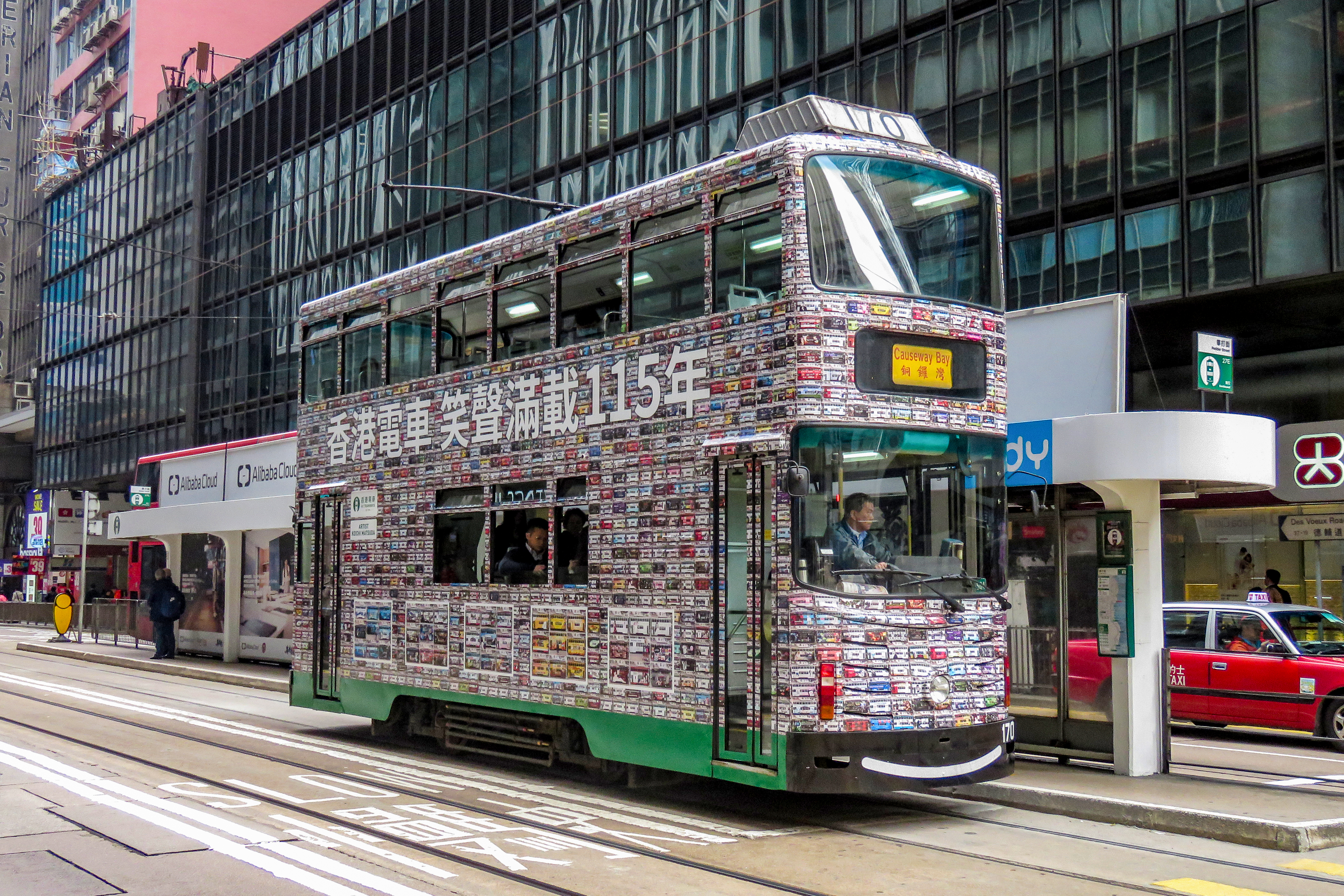 170 has just got a new livery by Koichi Matsuda, commemorating the 115th anniversary of Hong Kong Tramways.